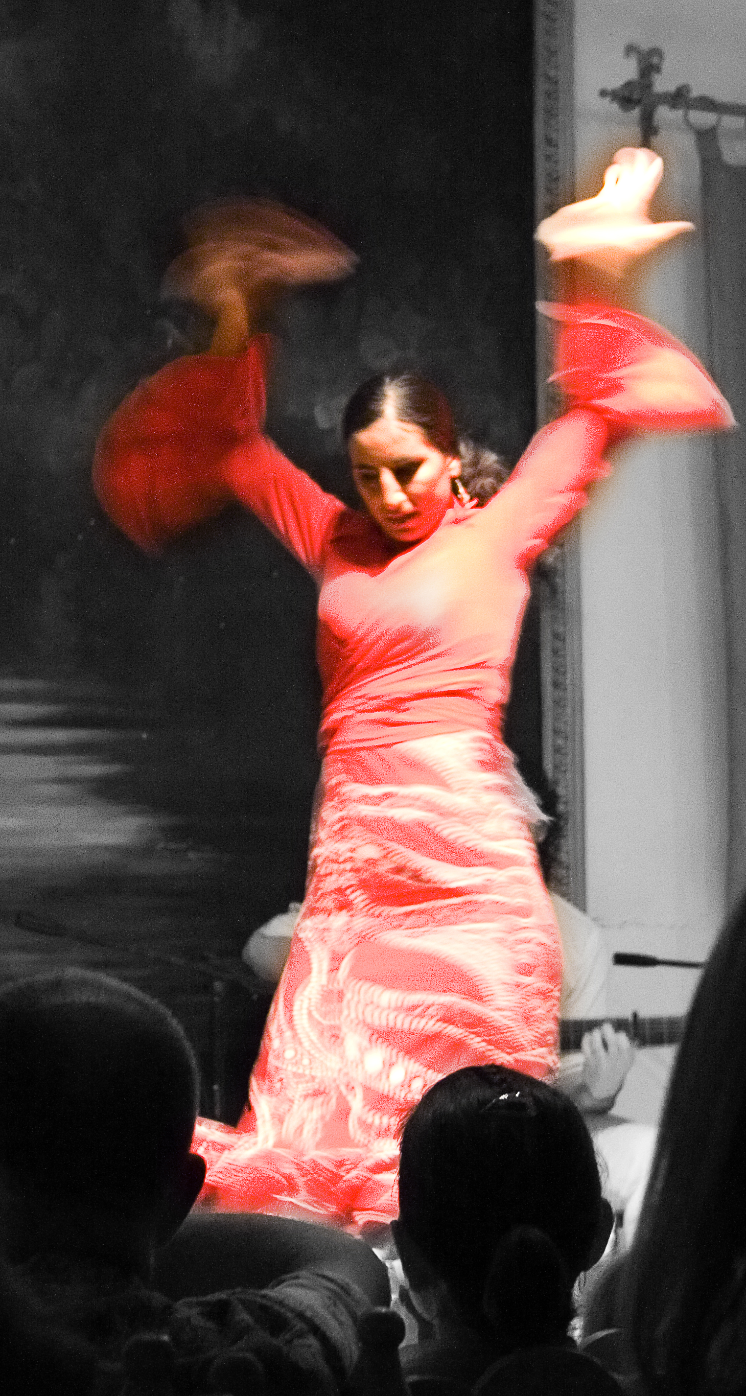 Picture taken in Albaicin, Granada on July 18, 2008